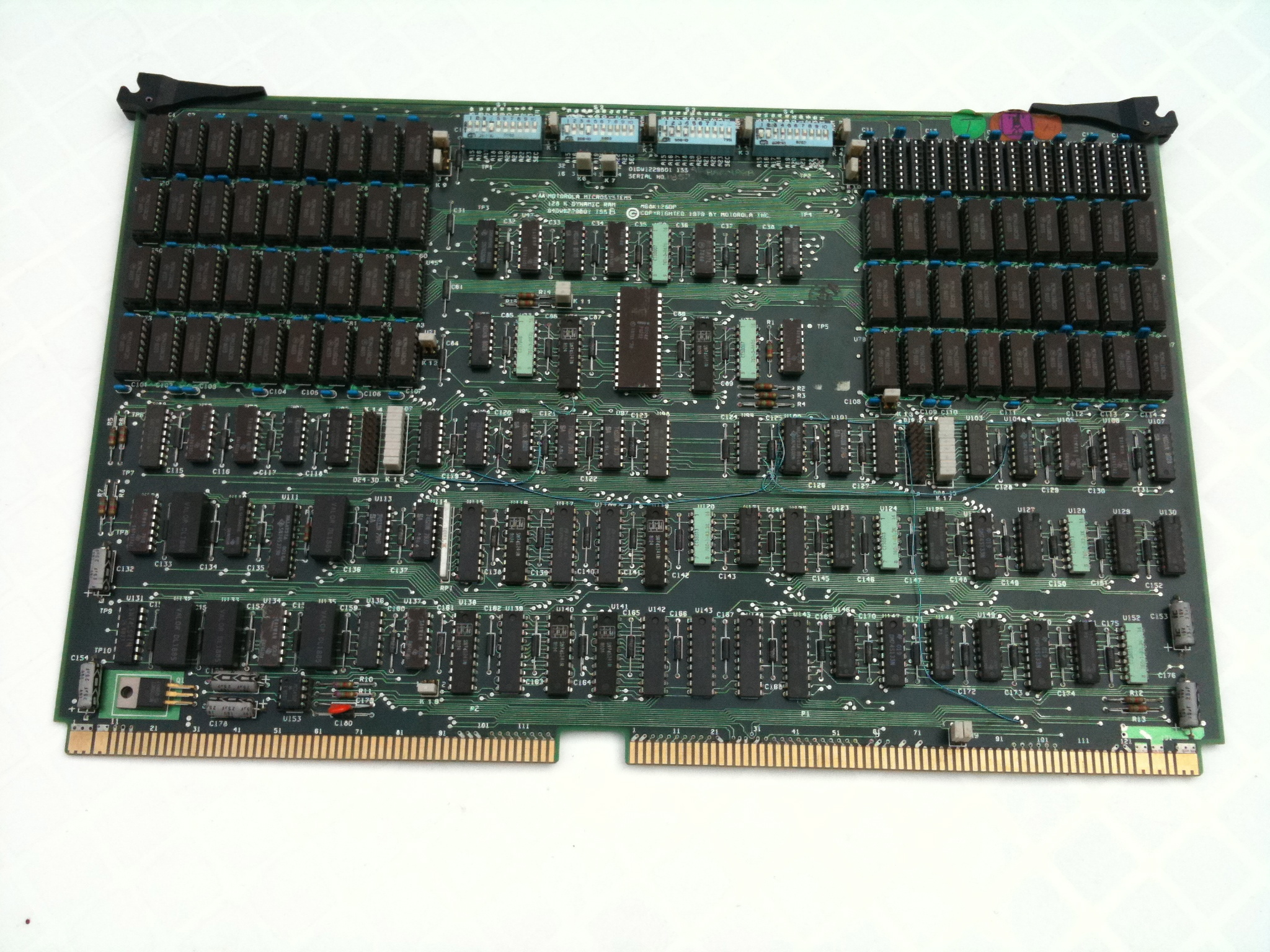 VERSAbus computer memory card with 128K bytes of dynamic RAM. Made by Motorola Microsystems circa 1980 and measures 14.5 inch by 9.25 inch. Uses 16K memory chips.